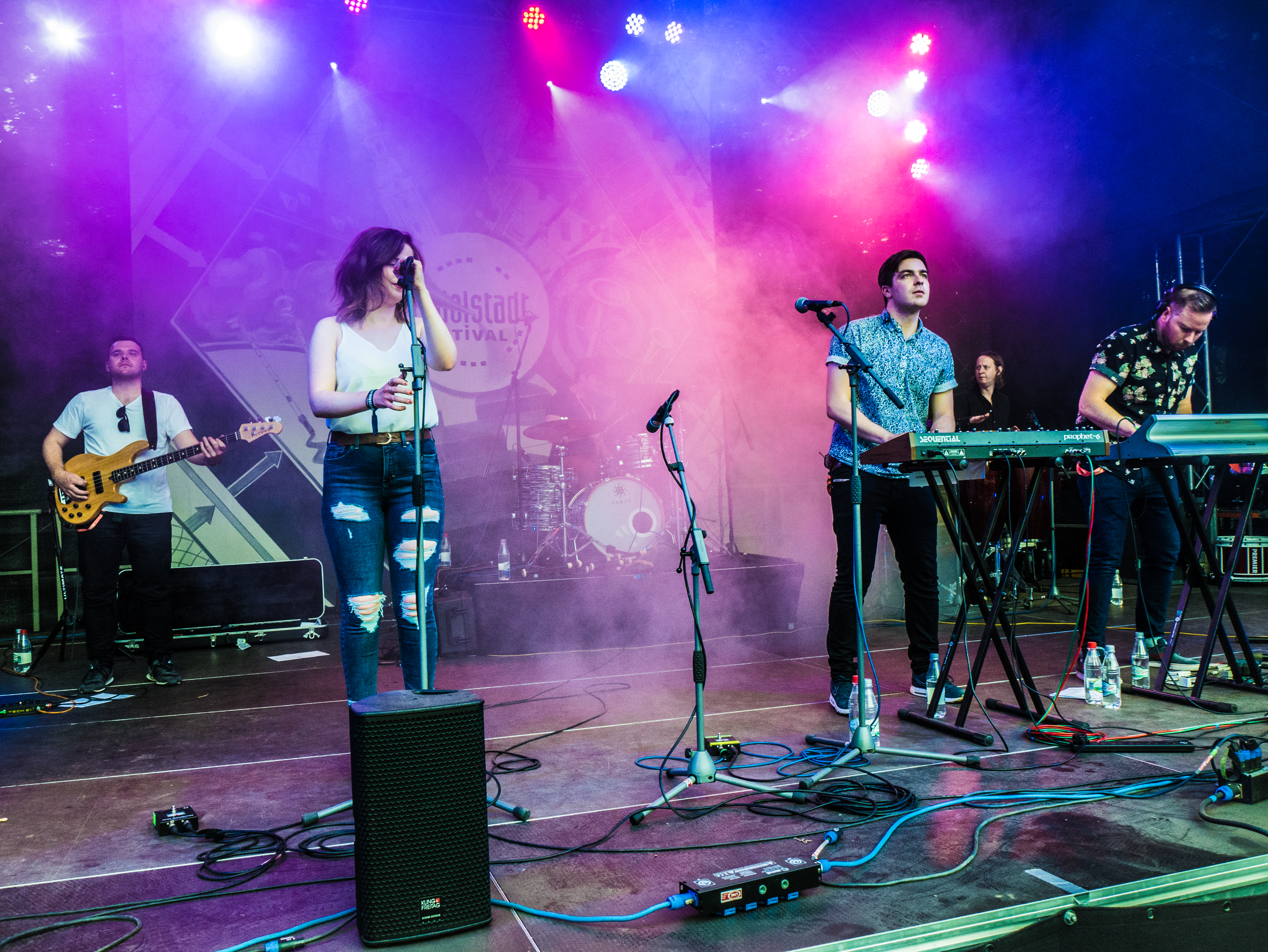 Electronic Celtic fusion band Niteworks at the Rudolstadt Festival 2017